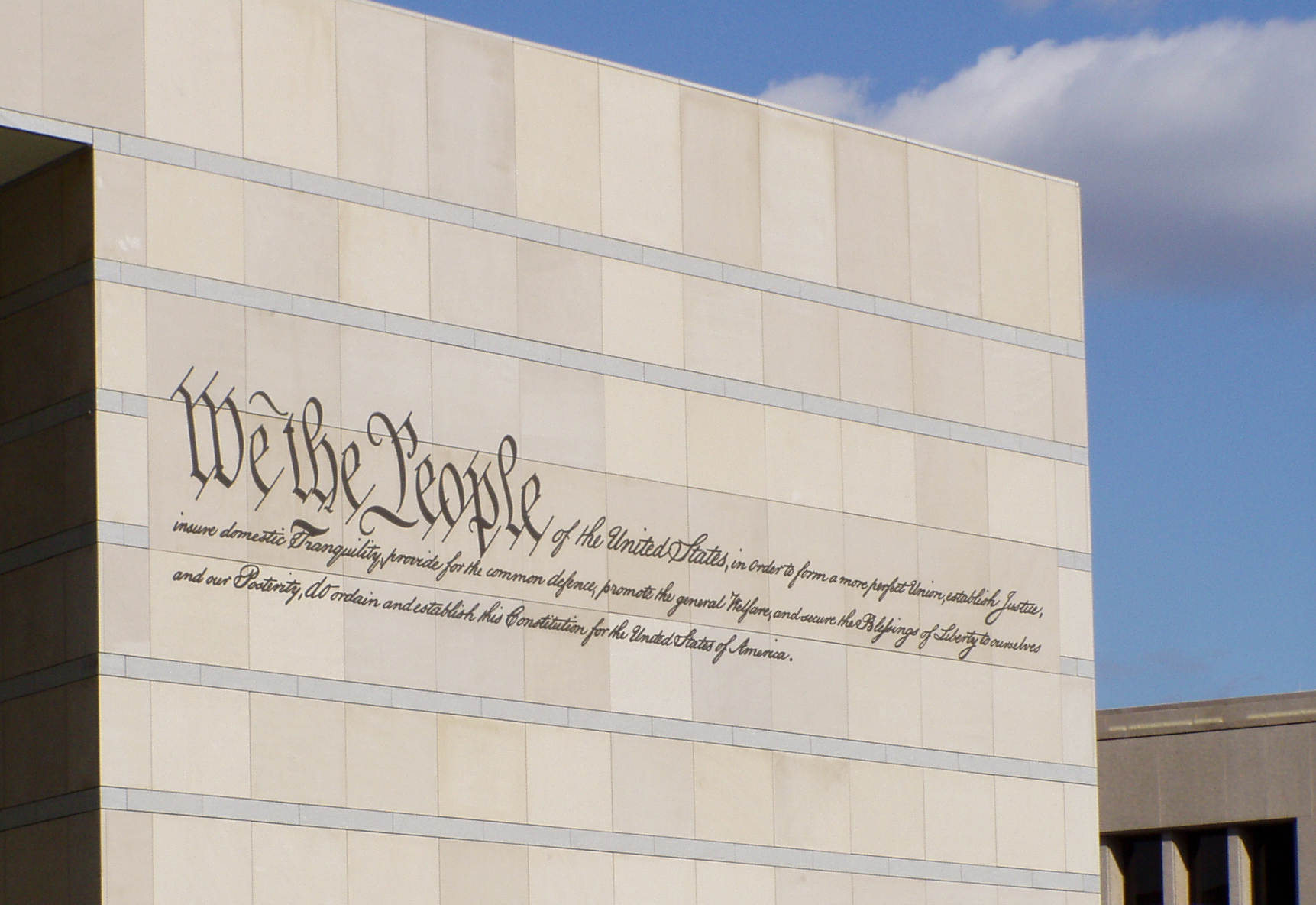 Taken in Philadelphia, Pennsylvania, in September 2003. The exterior of the National Constitution Center displays the opening words of the United States Constitution.